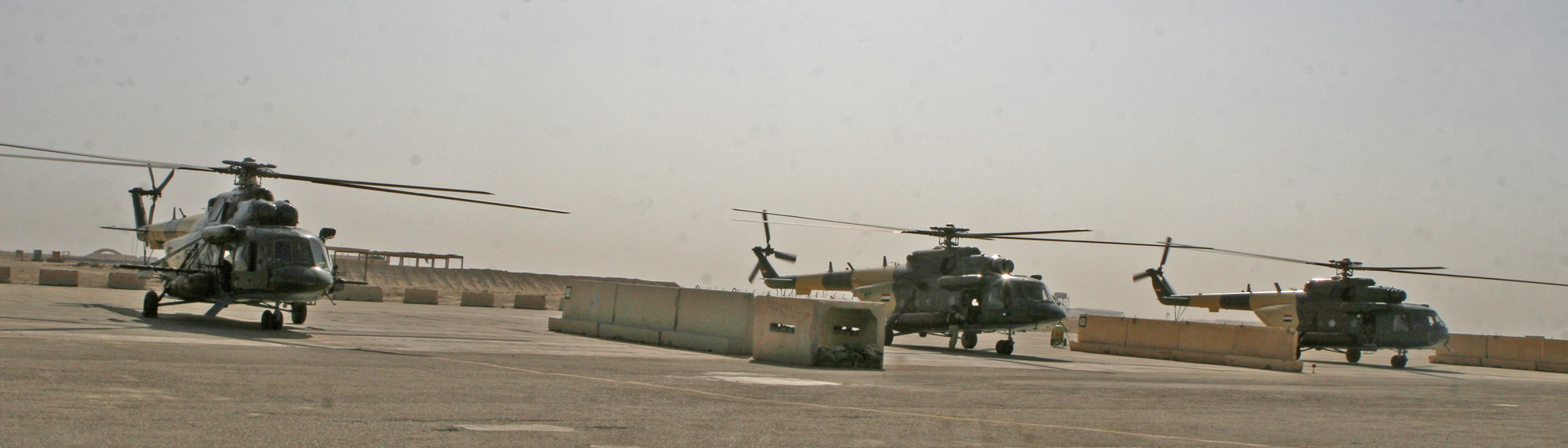 A detachment of 17 personnel from 4th Squadron, Iraqi Air Force, and their five U.S. Air Force advisors, arrive aboard Camp Al Taqaddum, Iraq, on IQAF Mi-17’s, Nov. 7, 2009. The Iraqi Ministry of Defense directed that the detachment come to the base in order to provide a rotary wing transportation capability to the Anbar Operations Command. (U.S. Marine Corps photograph by Lance Cpl. Melissa A. Latty)